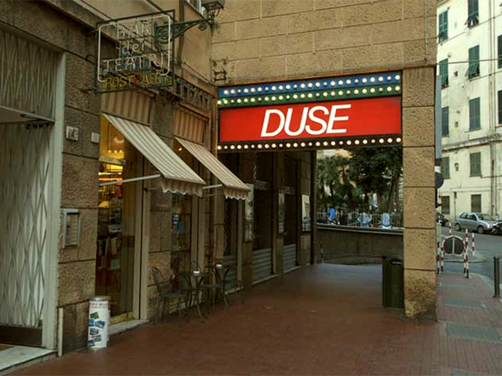 Teatro Duse, Genova, Italy